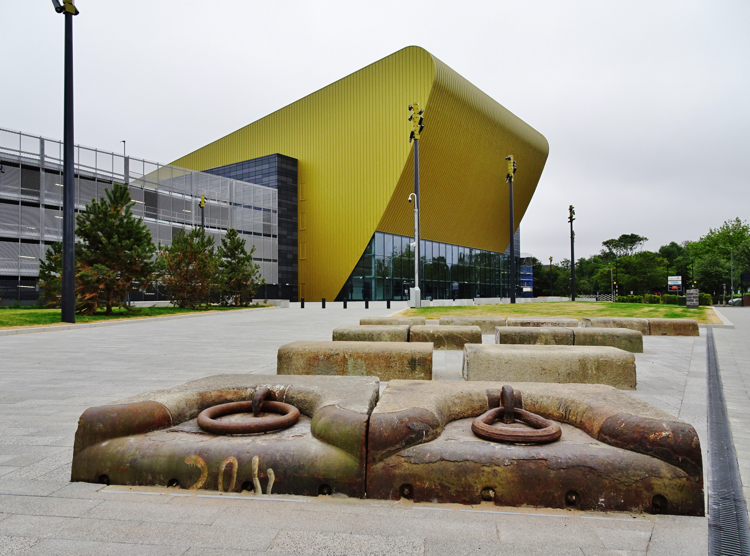 Myton Street, Hull, East Riding of Yorkshire, England.The construction of Hull Venue has recently been completed. This state-of-the-art music and events complex has been renamed Bonus Arena after local sponsor Bonus Group, founded by Eric Boanas in 1962. The arena is owned by Kingston upon Hull City Council and managed by SMG Europe. It was built by BAM Construction.